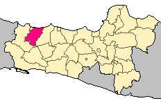 Tegal county in Central Java province, Indonesia